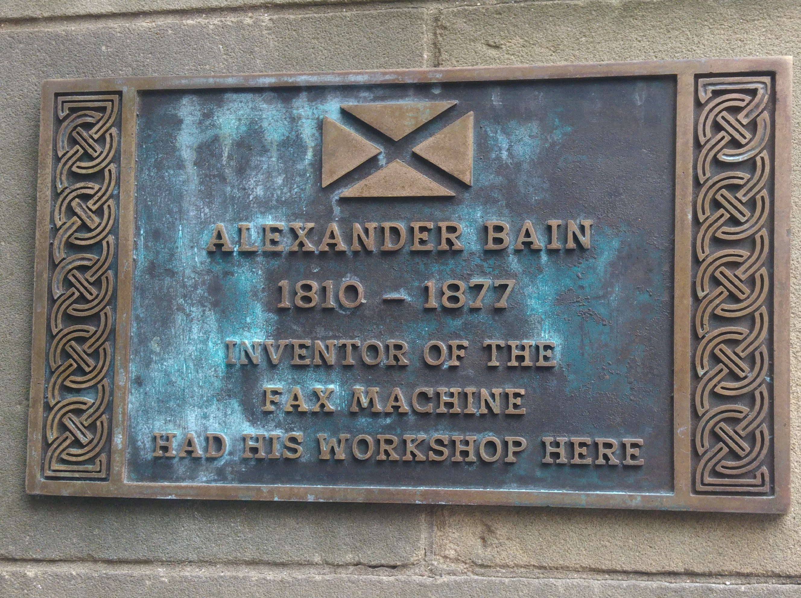 A commemorative plaque to the inventor Alexander Bain (1810 to 1877) at his former workshop at 21 Hanover Street, Edinburgh, Scotland.